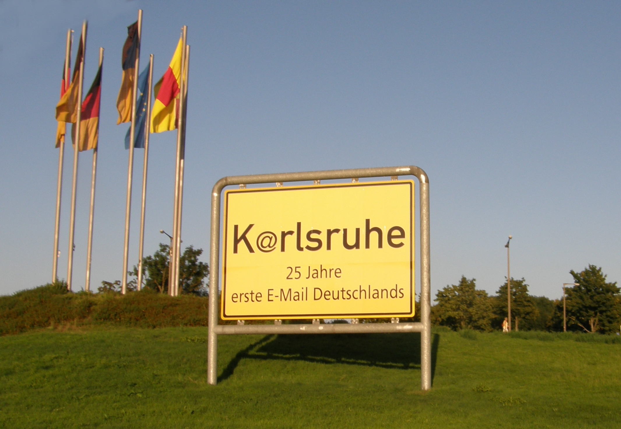 25 years e-mail, commemorating the 1st e-mail from USA to Germany